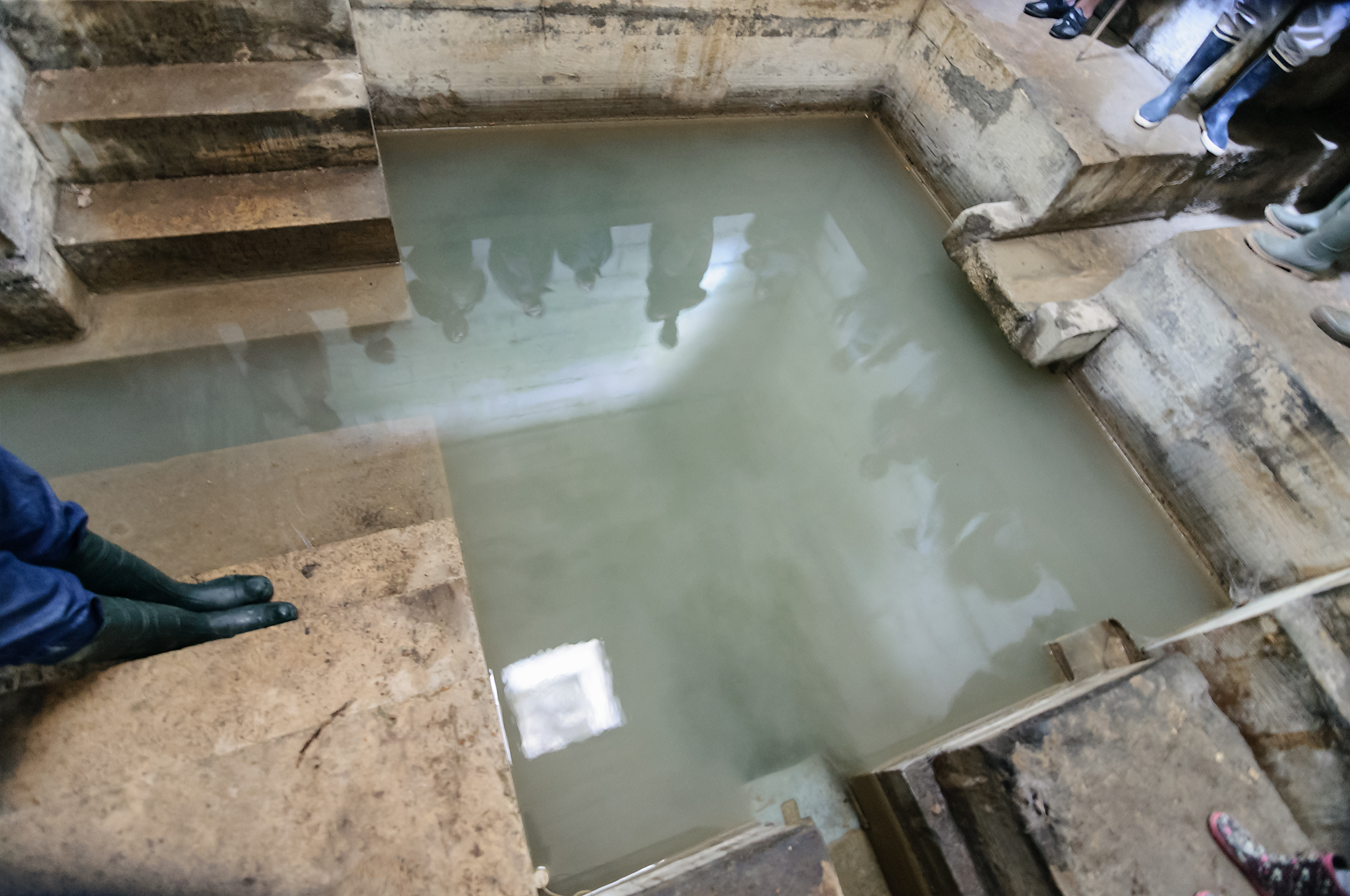 The settling tank of the regard n. 1 of the Medici Aqueduct, opened to public for the 400th anniversary of the aqueduct (Rungis, Val-de-Marne, France) .